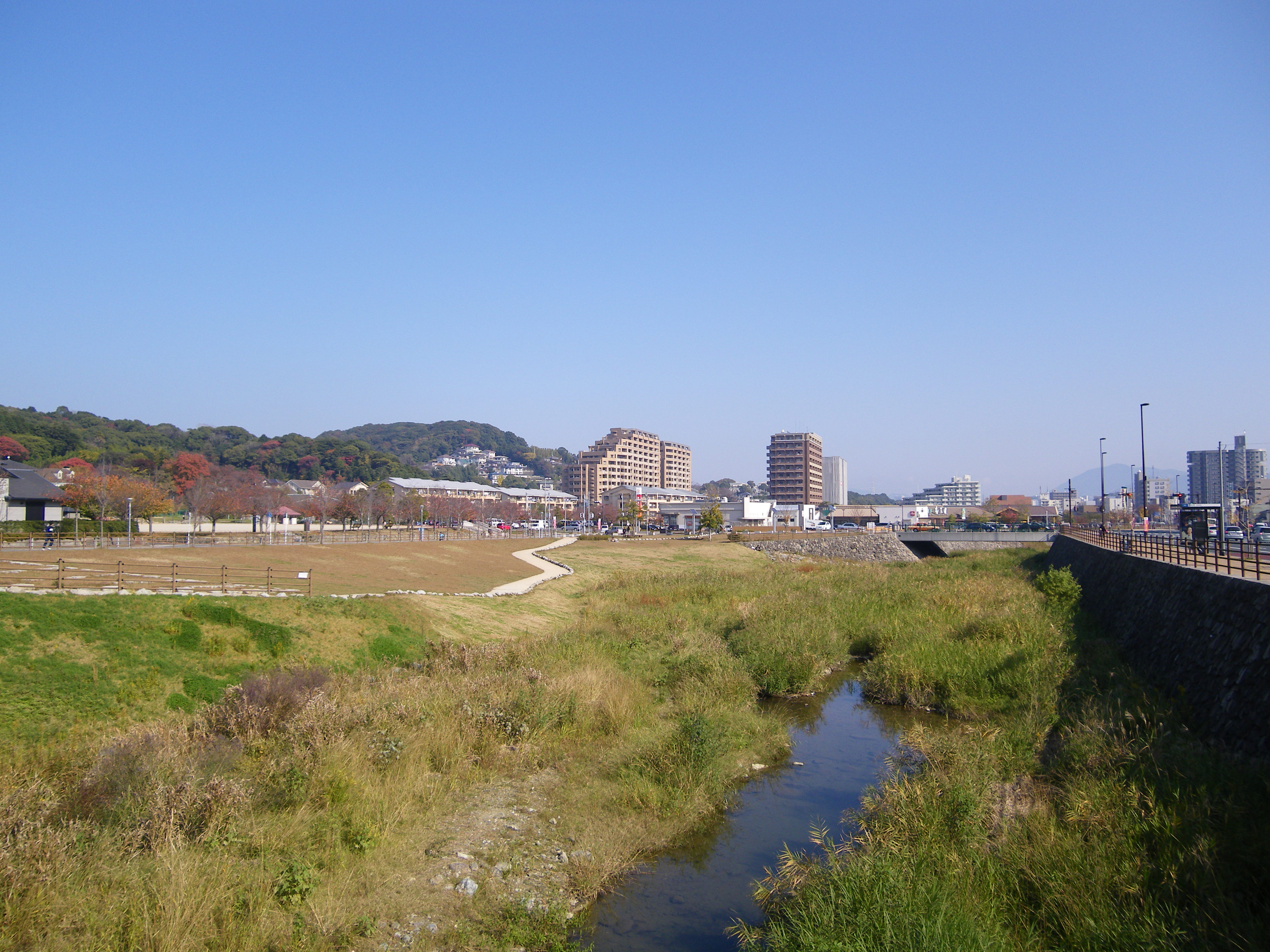 Takami, Yahata-higashi, Kitakyushu.